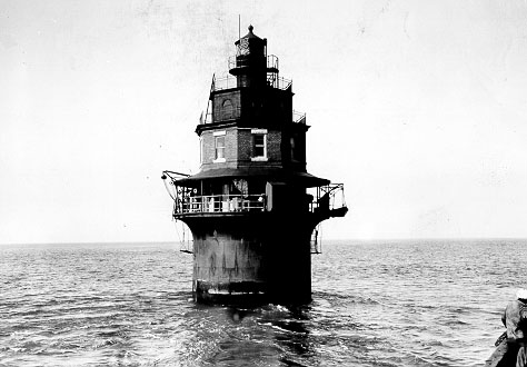 Undated United States Coast Guard photograph of Elbow of Cross Ledge Light (original here)